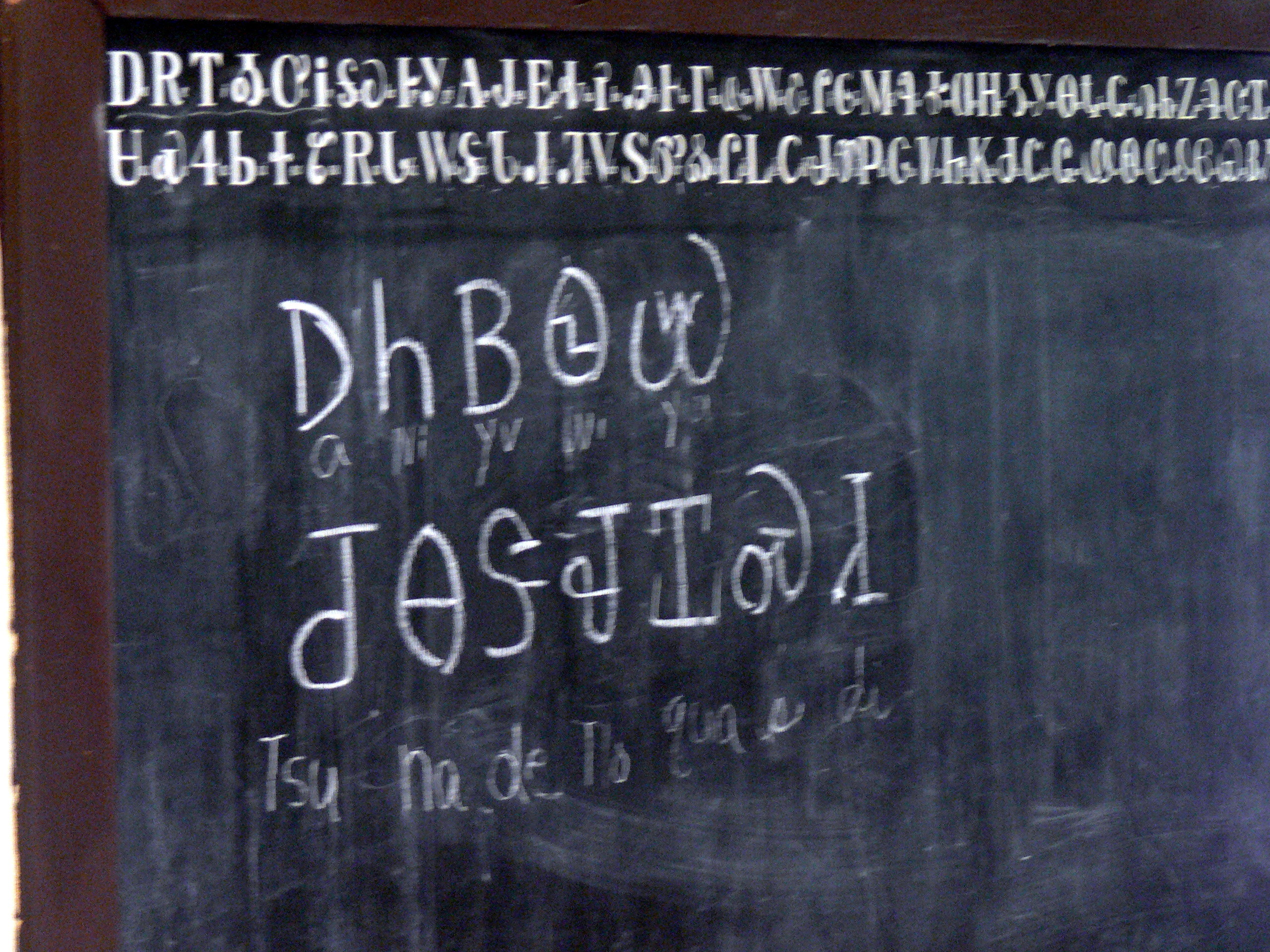 Cherokee Heritage Center ( Tahlequah / Oklahoma ). Adams Corner village: Village school - Cherokee script at the blackboard.